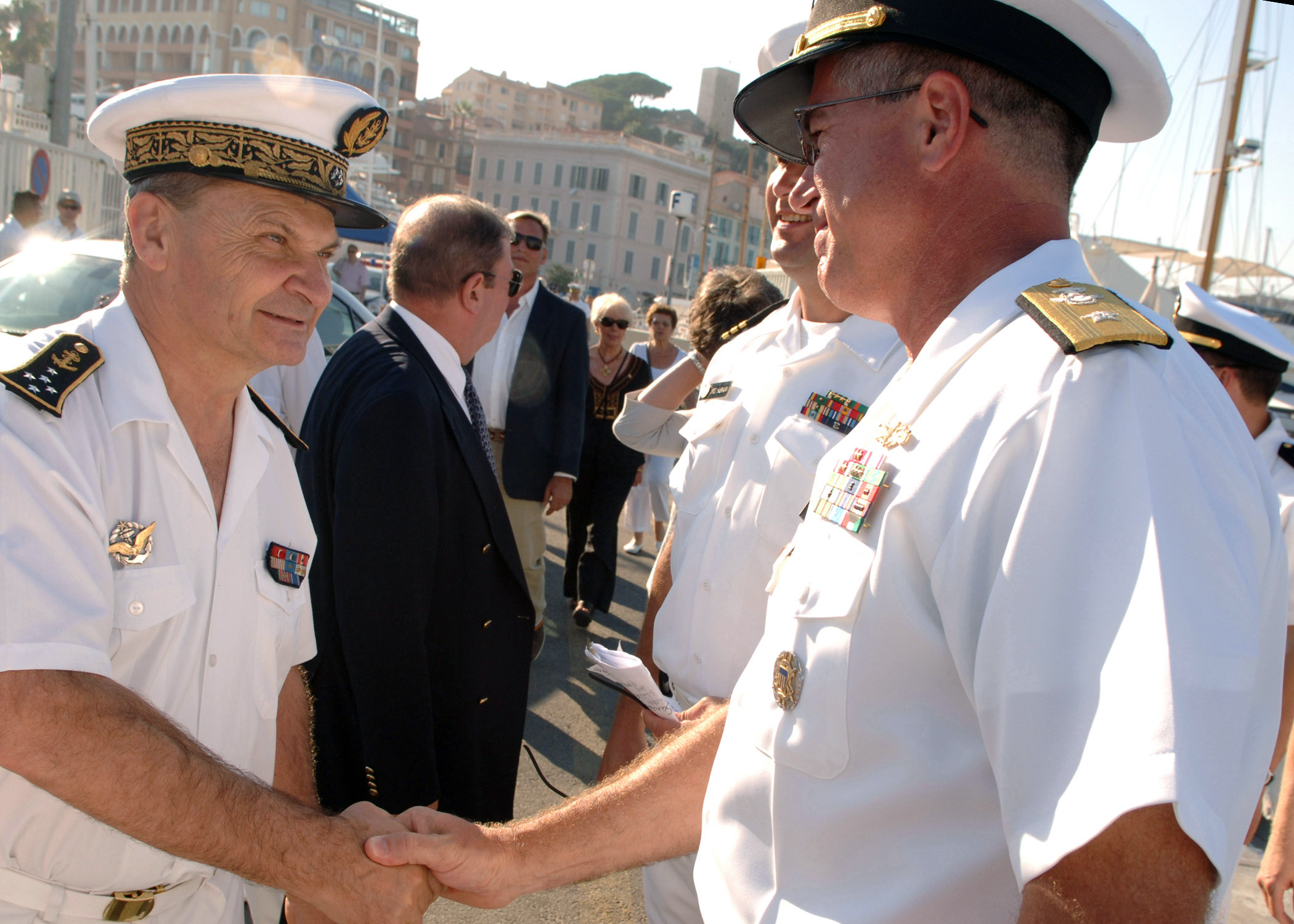 The Commander of US Carrier Strike Group (CCSG) 12, Rear Admiral Dan Holloway, greets Chief of French Naval Staff Admiral Oudot de Dainville, prior to a reception aboard the nuclear-powered aircraft carrier USS Enterprise (CVN 65), hosted by the Commander of U.S. Naval Forces in Europe. The Enterprise and her embarked Carrier Air Wing (CVW) 1 are underway on a scheduled six-month deployment in support of the "global war on terrorism".